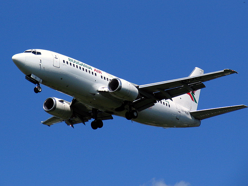 Bulgaria Air Boeing 737-300 LZ-BOO